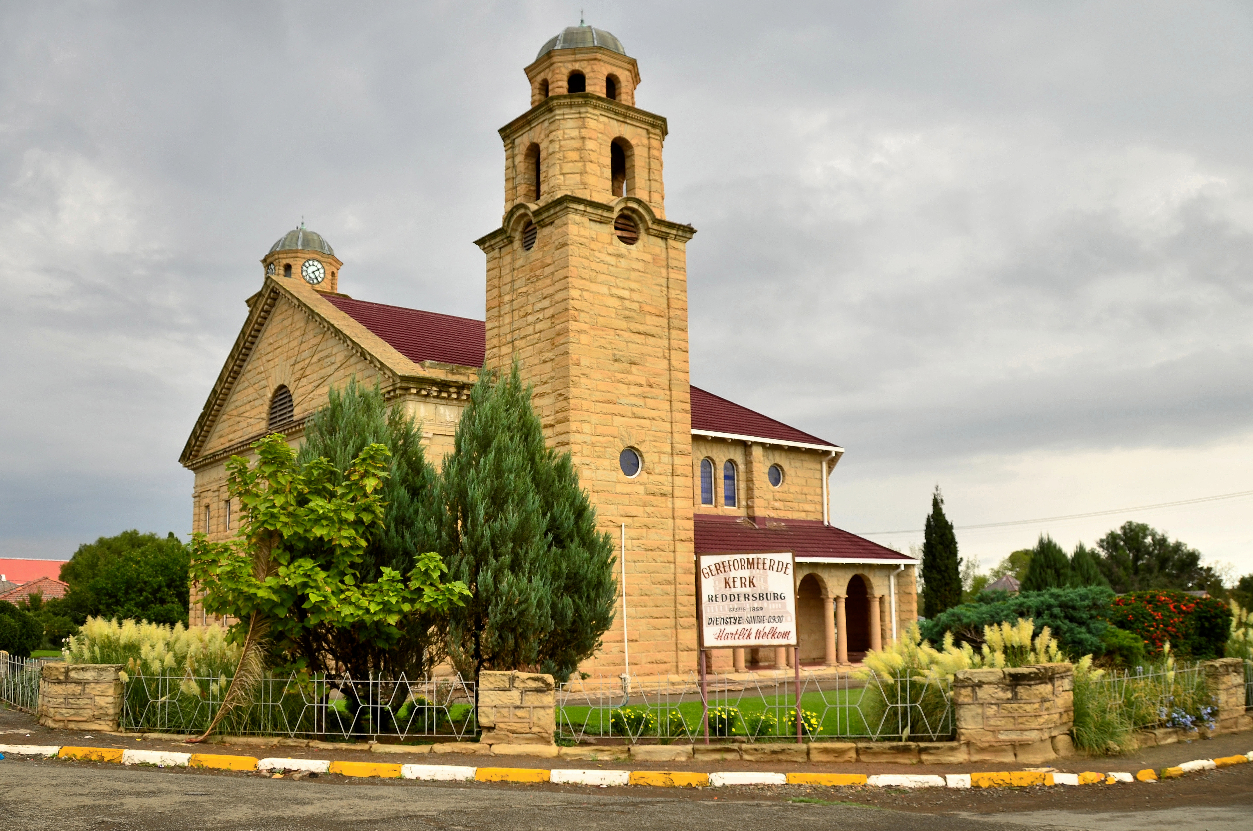 Reformed Church in Reddersburg, South Africa